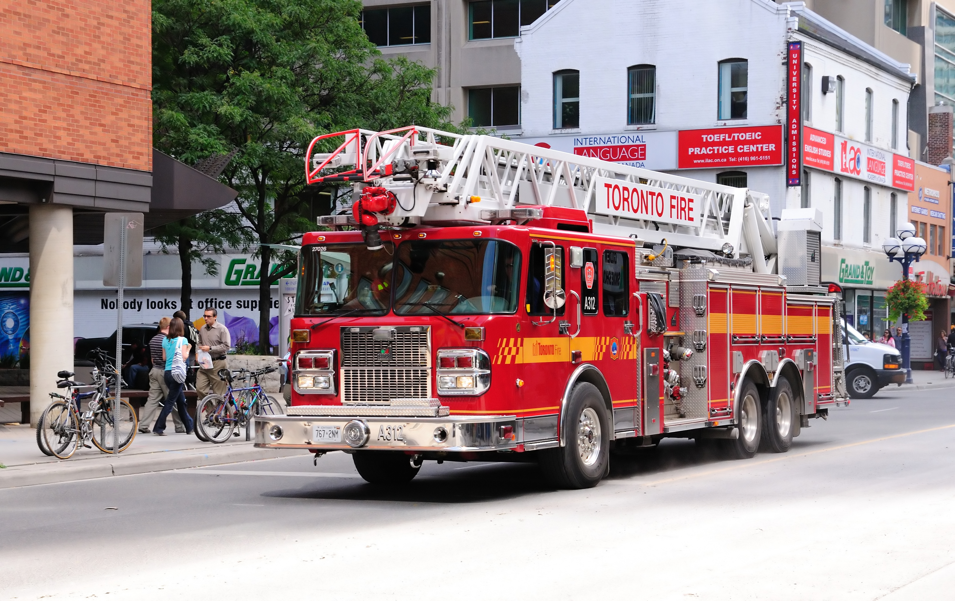 Toronto Fire Aerial 312